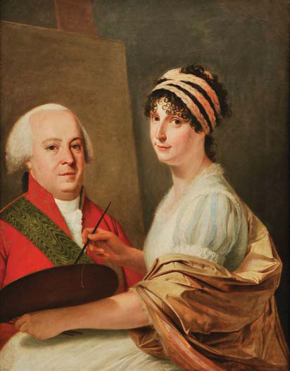 Painting of the Count and Countess of Linhares